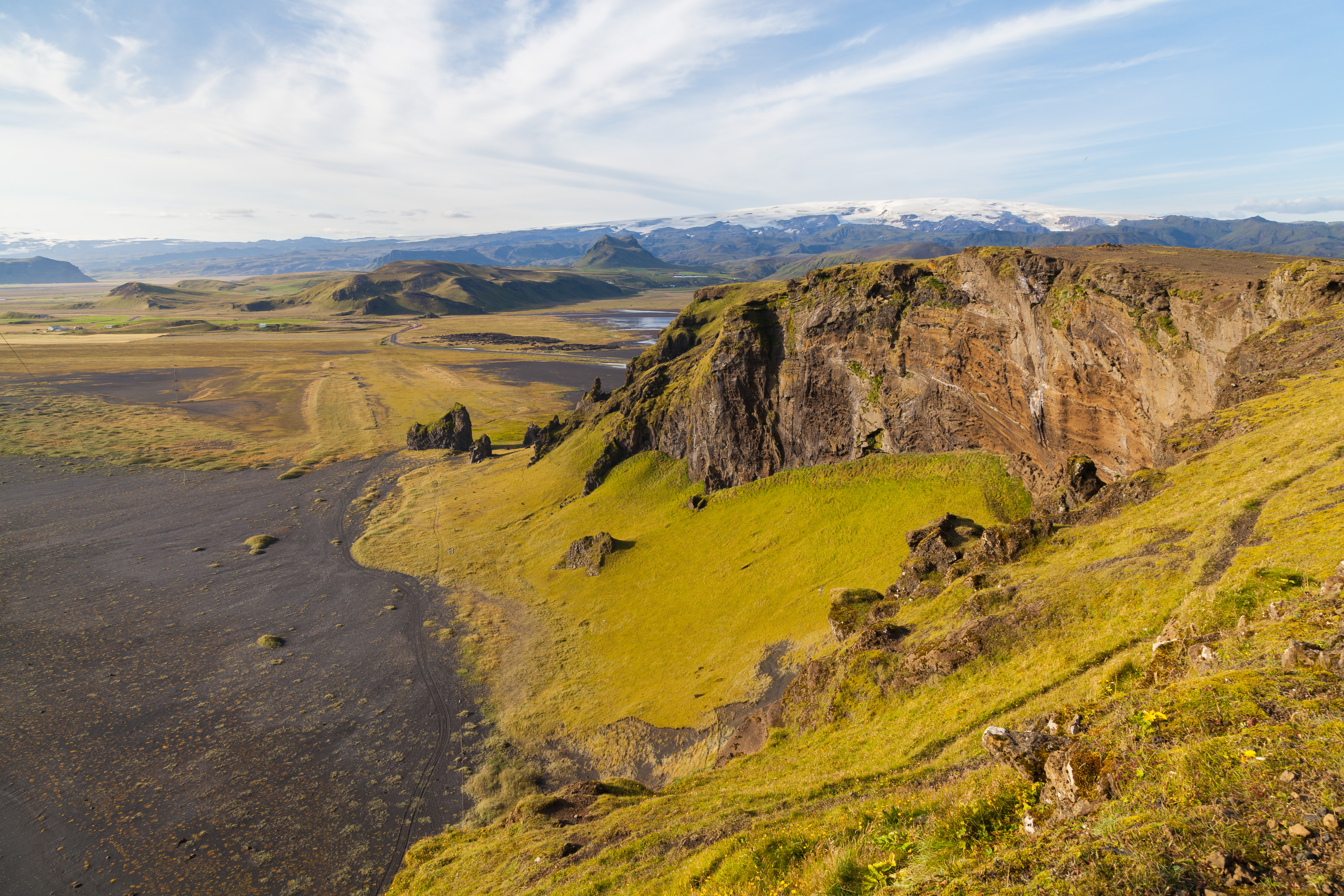 Dyrhólaey, Suðurland, Iceland